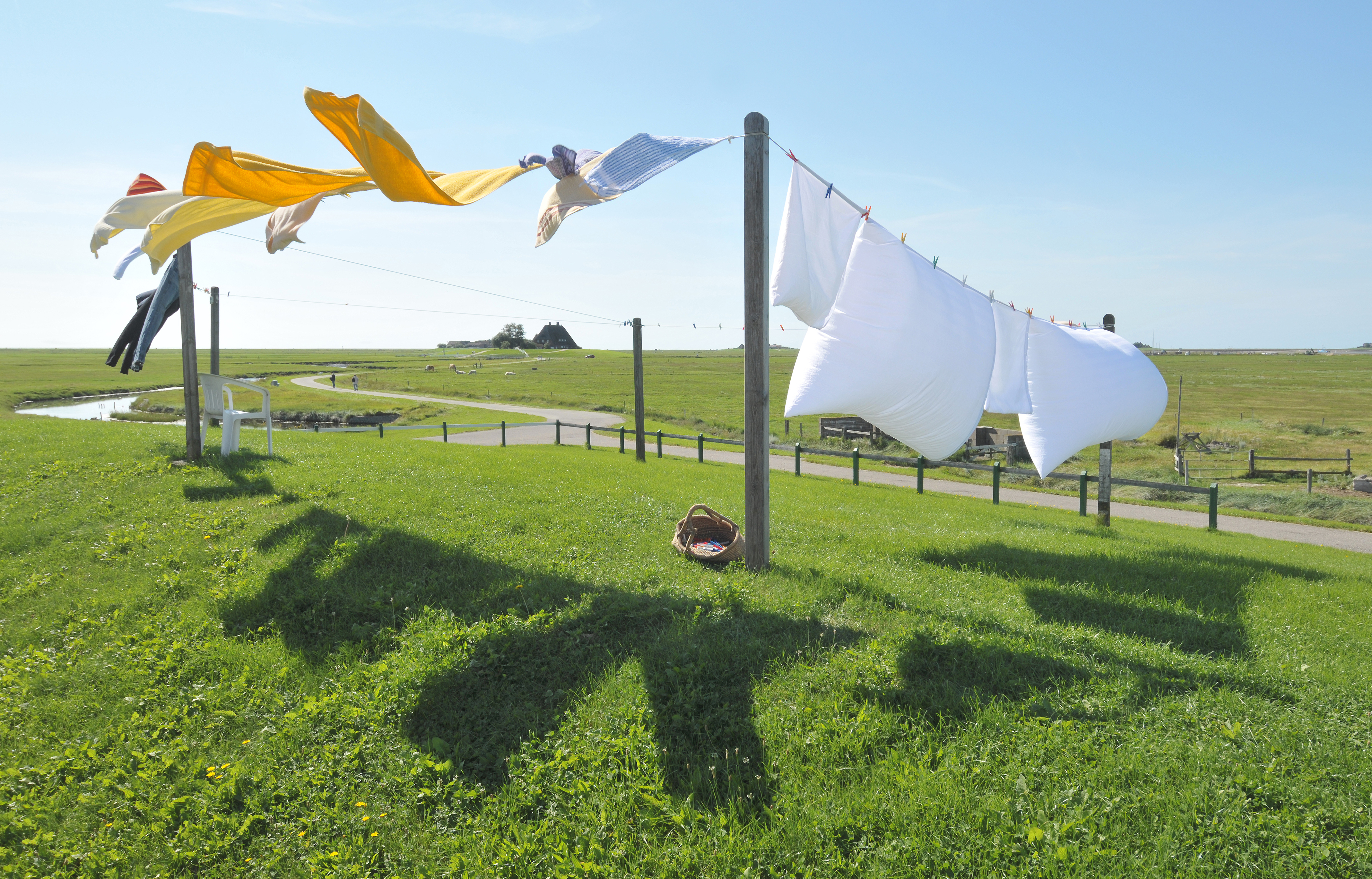 View from the Backenswarft on Hallig Hooge. The Hallig Hooge is the second largest of the ten islets in the Schleswig-Holstein Wadden Sea. She is surrounded by an approximately 1.20 meters high stone dyke and is thus protected from light storm surges. Nevertheless Hallig Hooge is flooded completely two to five times a year. The Houses are built on high mounds. Therefore they can withstand the storm surges. The Hallig Hooge has twelve mounds. The Backenswarft is the second largest mound with a dozen buildings. The buildings surround the pond with rainwater.